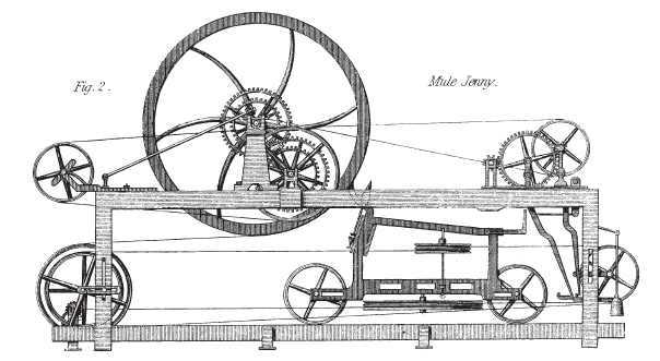 Mule Jenny: Capture from Baines 1835, Illustrations from the History of the Cotton Manufacture in Great Britain .Pub H. Fisher, R. Fisher, and P. Jackson